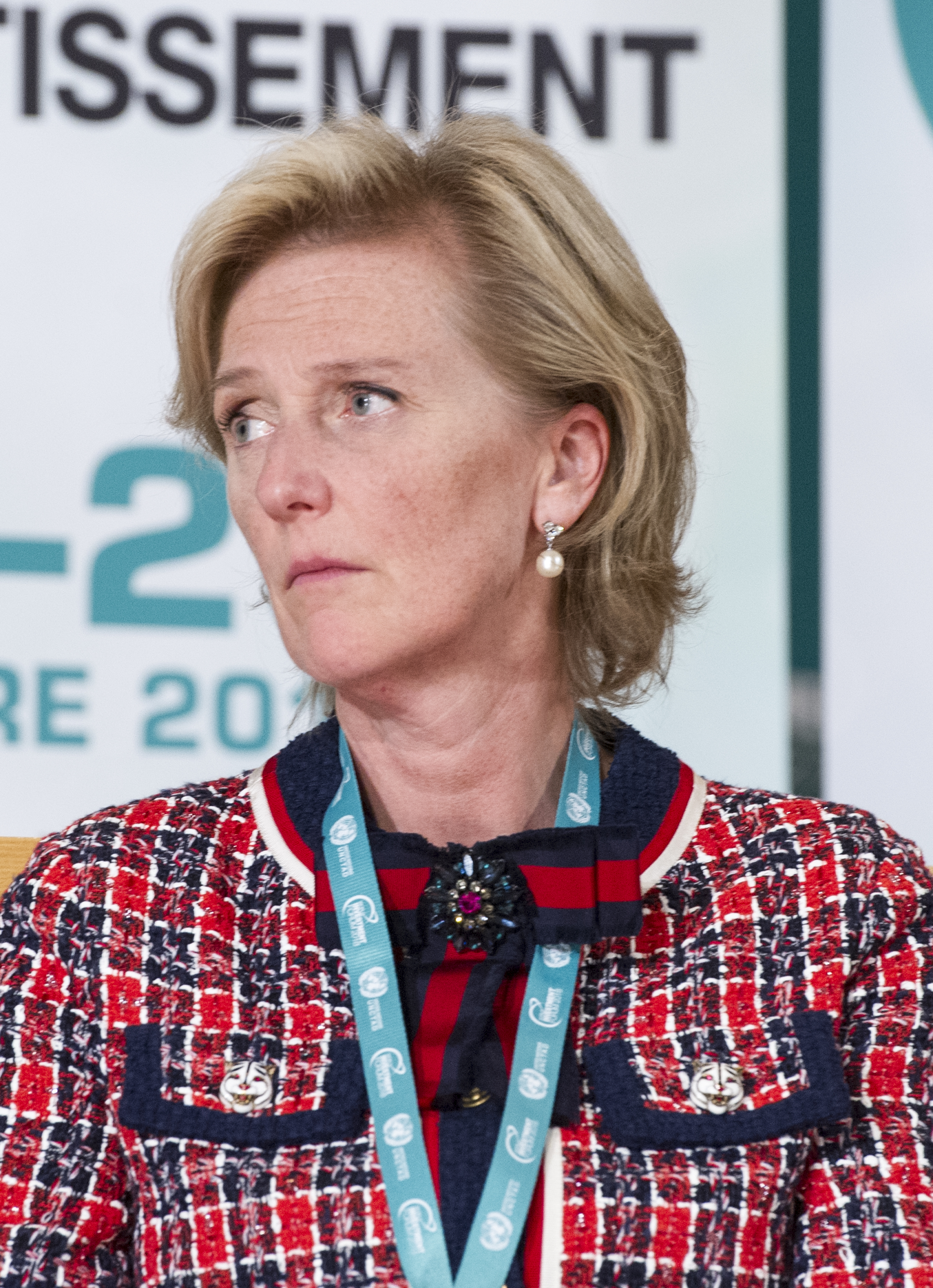 H.R.H. Princess Astrid of Belgium attends the World Investment Forum 2018 Opening, Palais des Natios. 22 October 2018. UNCTAD photo by Violaine Martin